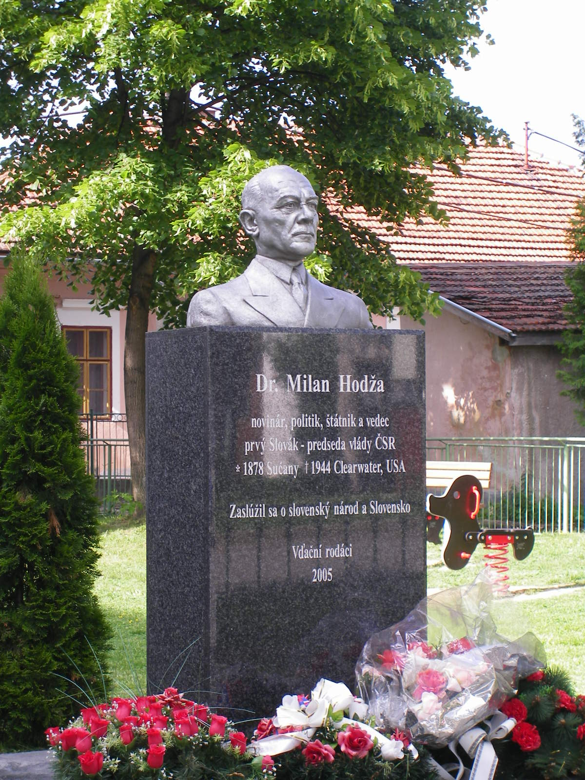 Sučany - Bust of Milan Hodža